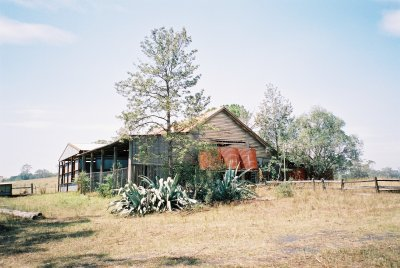 Denbigh, Cobbitty